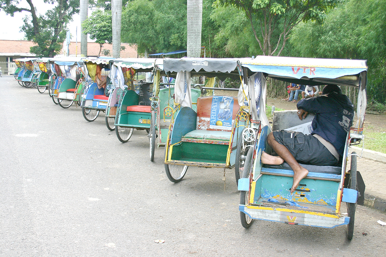 Becak Driver in Bogor